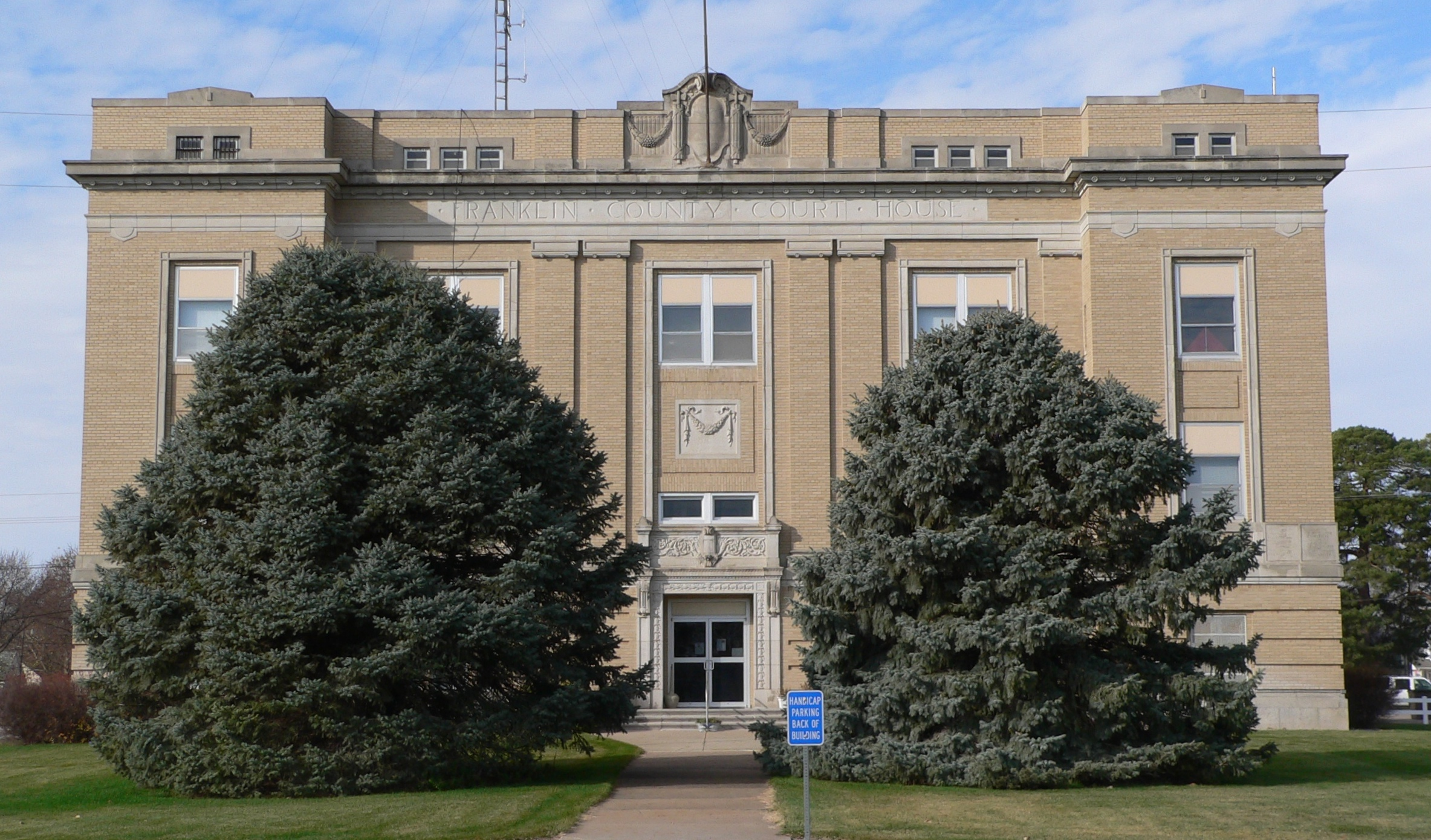 Franklin County Courthouse in Franklin, Nebraska, seen from the east. The building was designed in Classical Revival style by architect George A. Berlinghof, and built in 1925. It is listed in the National Register of Historic Places.